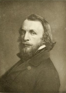 Charles Loring Brace, aged 29 years. This photograph appeared in "The life of Charles Loring Brace : chiefly told in his own letters" edited by his daughter Emma Brace, published in 1894, after page 208.